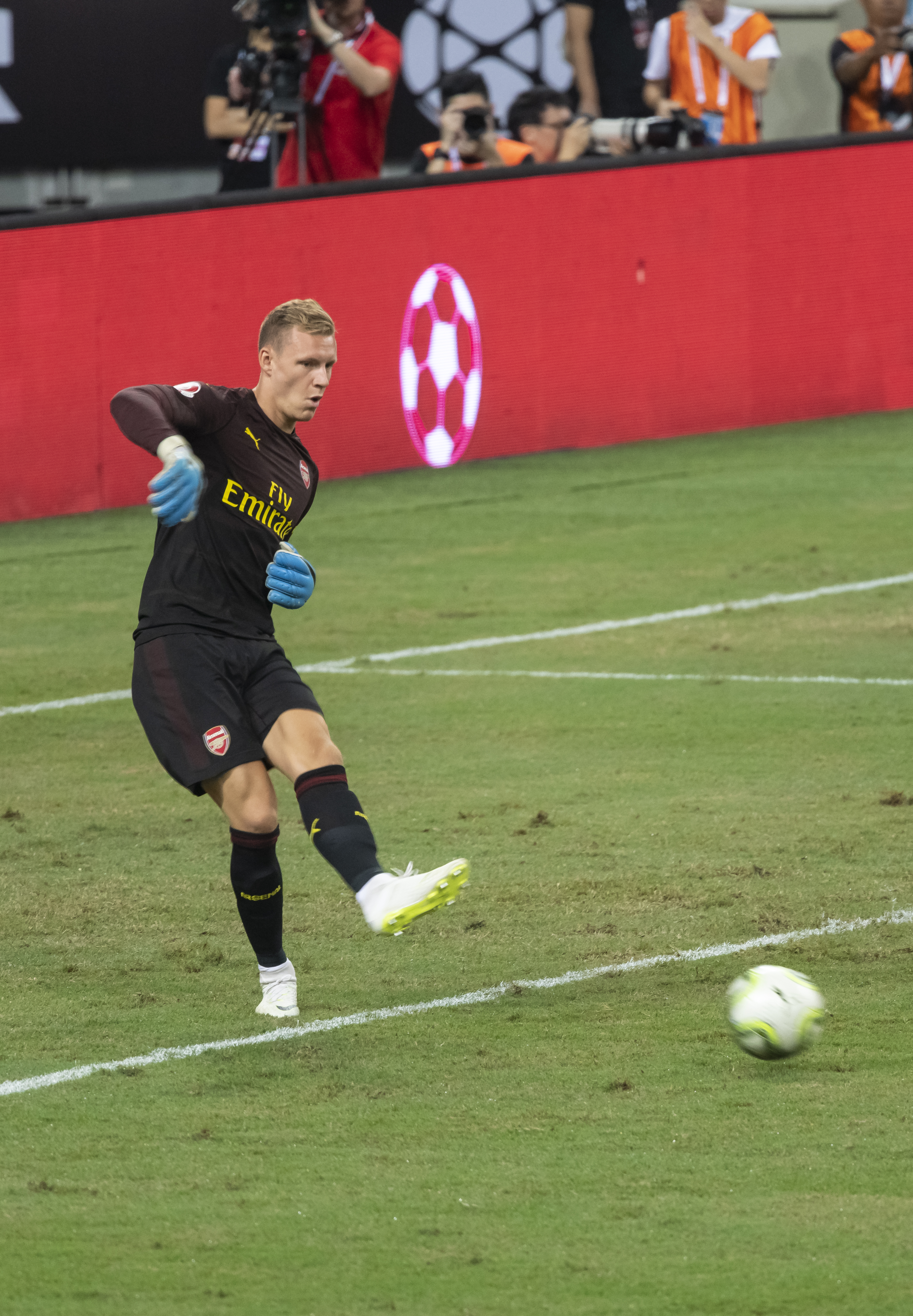 Bernd Leno Arsenal v PSG International Champions Cup 2018 Singapore National Stadium